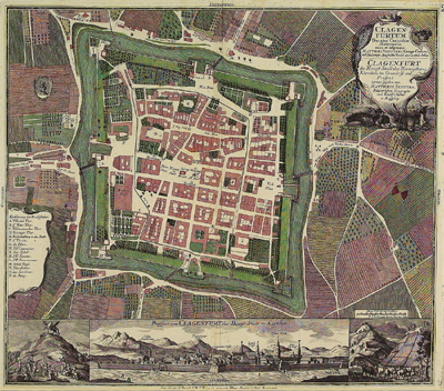 Topographic map of Klagenfurt (Austria / EU) around 1735. This map was printed by Seutterische Werkstatt in Augsburg, Germany. Coloured copperplate, engraving.